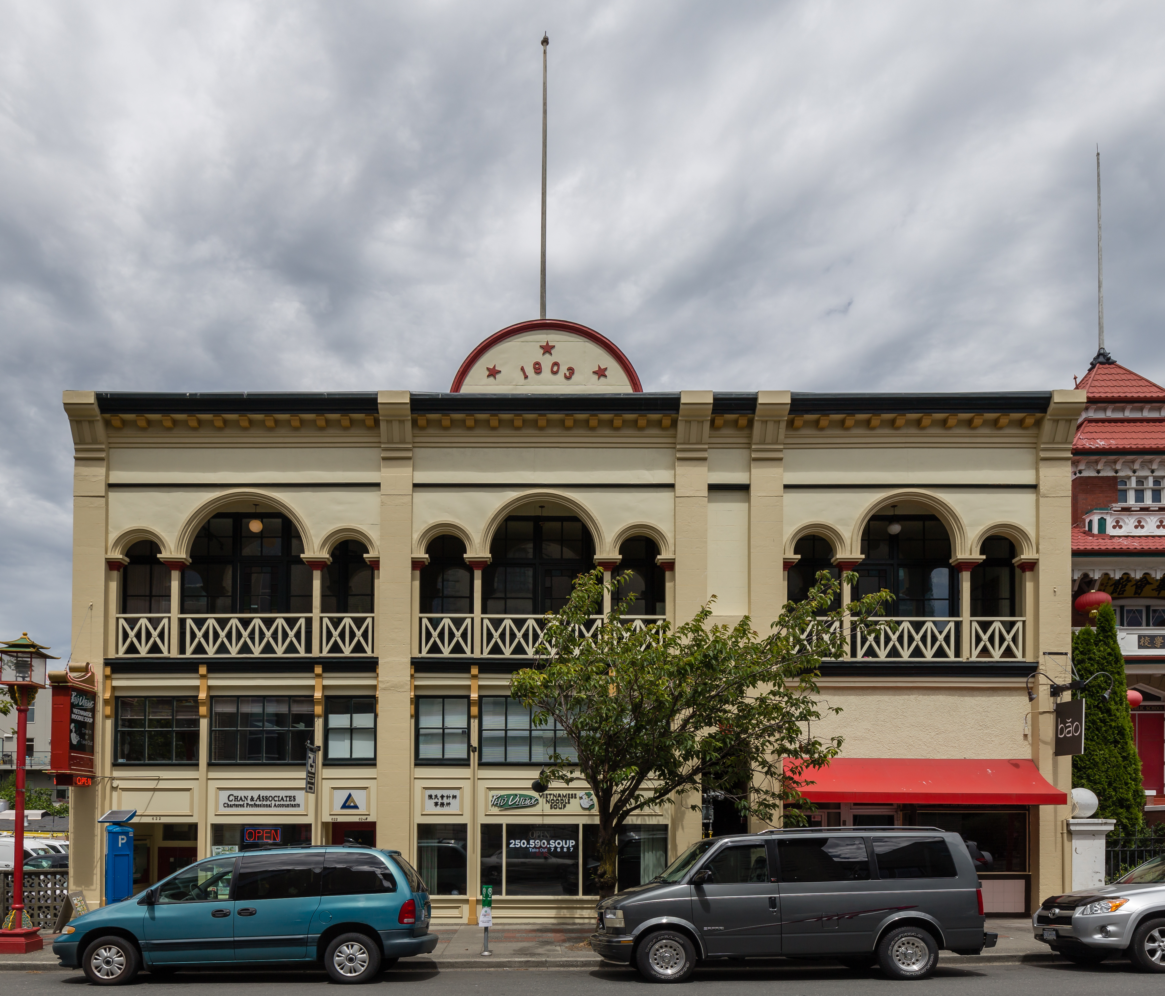 Gee Tuck Tong Benevolent Association Building, Fisgard St, Victoria, British Columbia, Canada